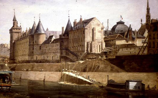 The Palais de Justice, the Conciergerie and the Tour de l'Horloge, after 1858 - by Adrien Dauzats